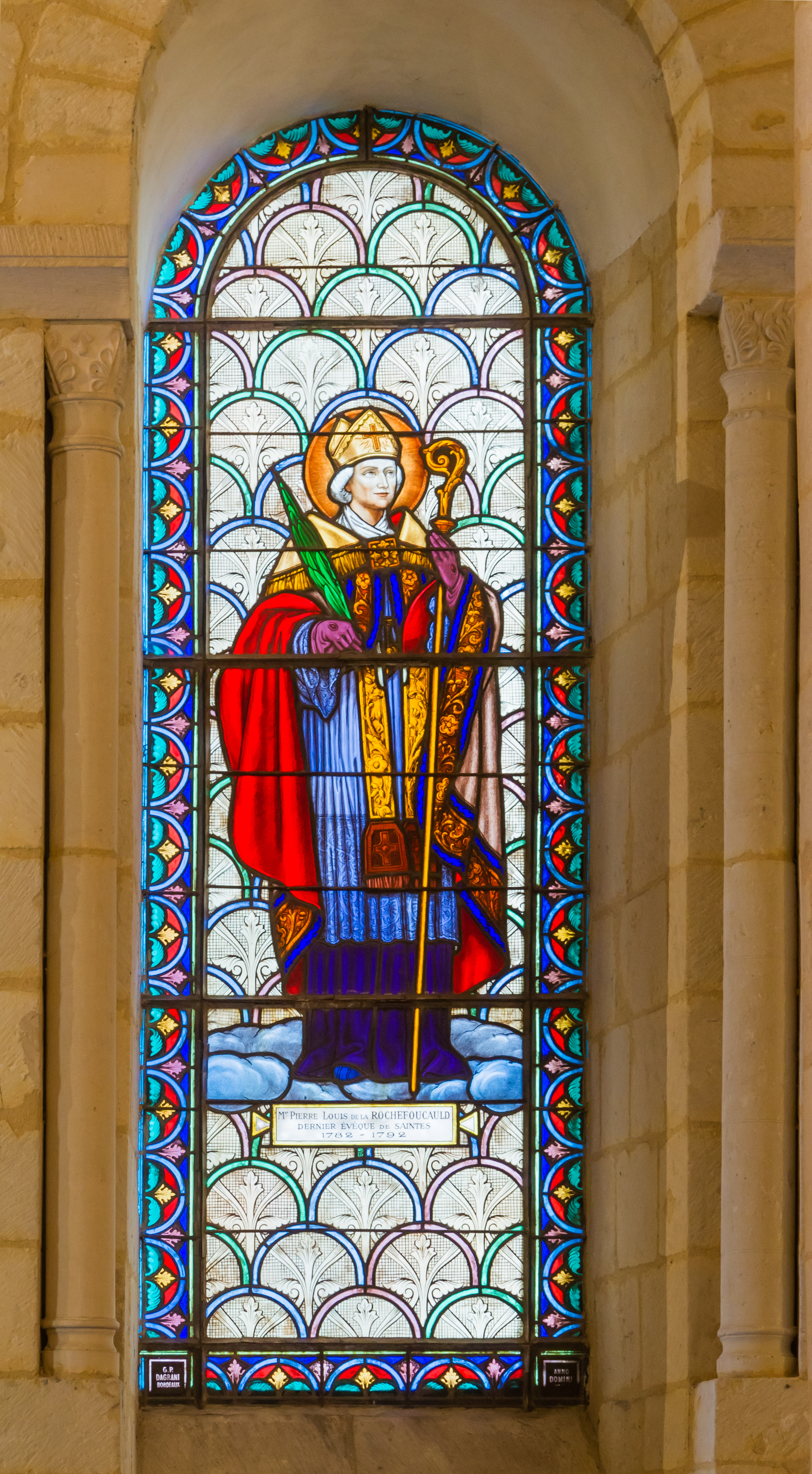 Bishop Blessed Pierre-Louis de la Rochefoucauld. Stained glass window by Dagrand, Saint-Eutropius upper Basilica, Saintes, Charente-Maritime, France